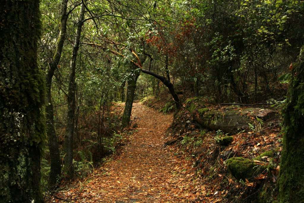 One of the many trails at Los Trancos Open Space Reserve in the east Santa Cruz Mountains, in southern San Mateo County and northwestern Santa Clara County, California. Part of the Midpeninsula Regional Open Space District regional parks system, in the western San Francisco Bay Area.